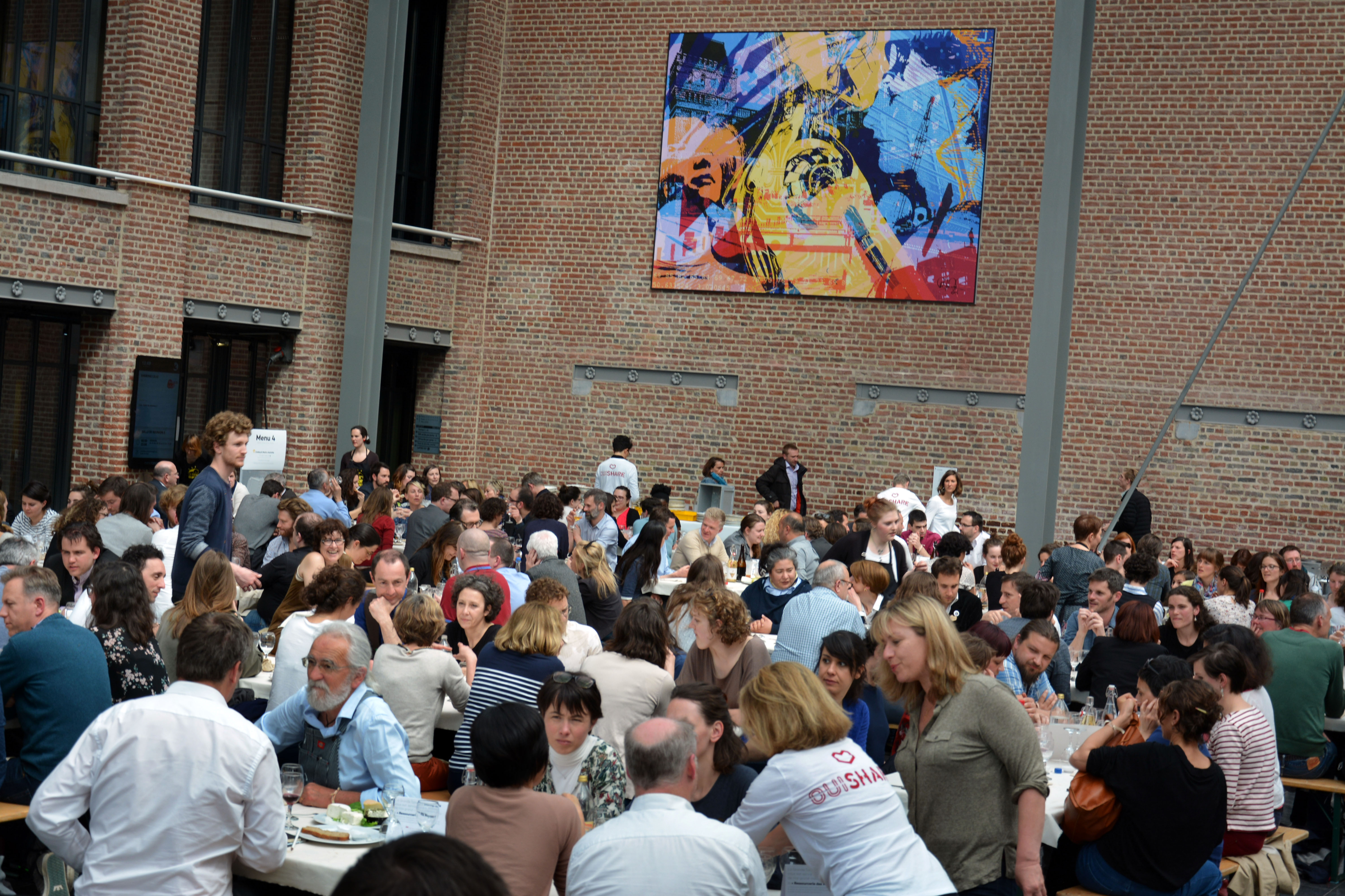 Francesca Pic (OuiShare, on the left), Antonin Léonard (Cofondateur de OuiShare) and (o the right) Pascal Terrasse (french deputy of Ardèche) in "Sharing Lille" 2016-04-21 (day dedicated to the collaborative economy across territories). This event was held in Lille Euratechnologies (in Region Nord-Pas-de-Calais and Picardy called "Hauts de France"